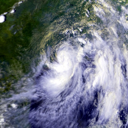 Tropical Storm Claudette from TIROS-N. Inventory ID: NSS.GHRR.TN.D79205.S2034.E2228.B0401112